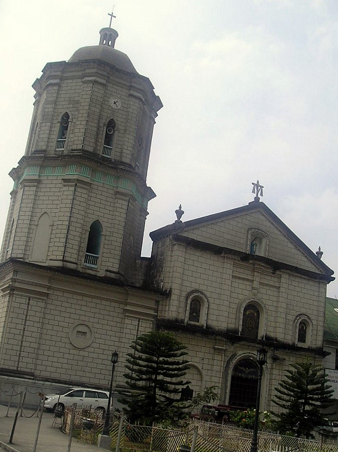 This image depicts the Municipality of Bauan Catholic Church, Batangas, Philippines Tagalog: Ipinapakita ng larawang ito ang Katolikong Simbahan ng Munisipalidad ng Bauan, Batangas, Pilipinas.